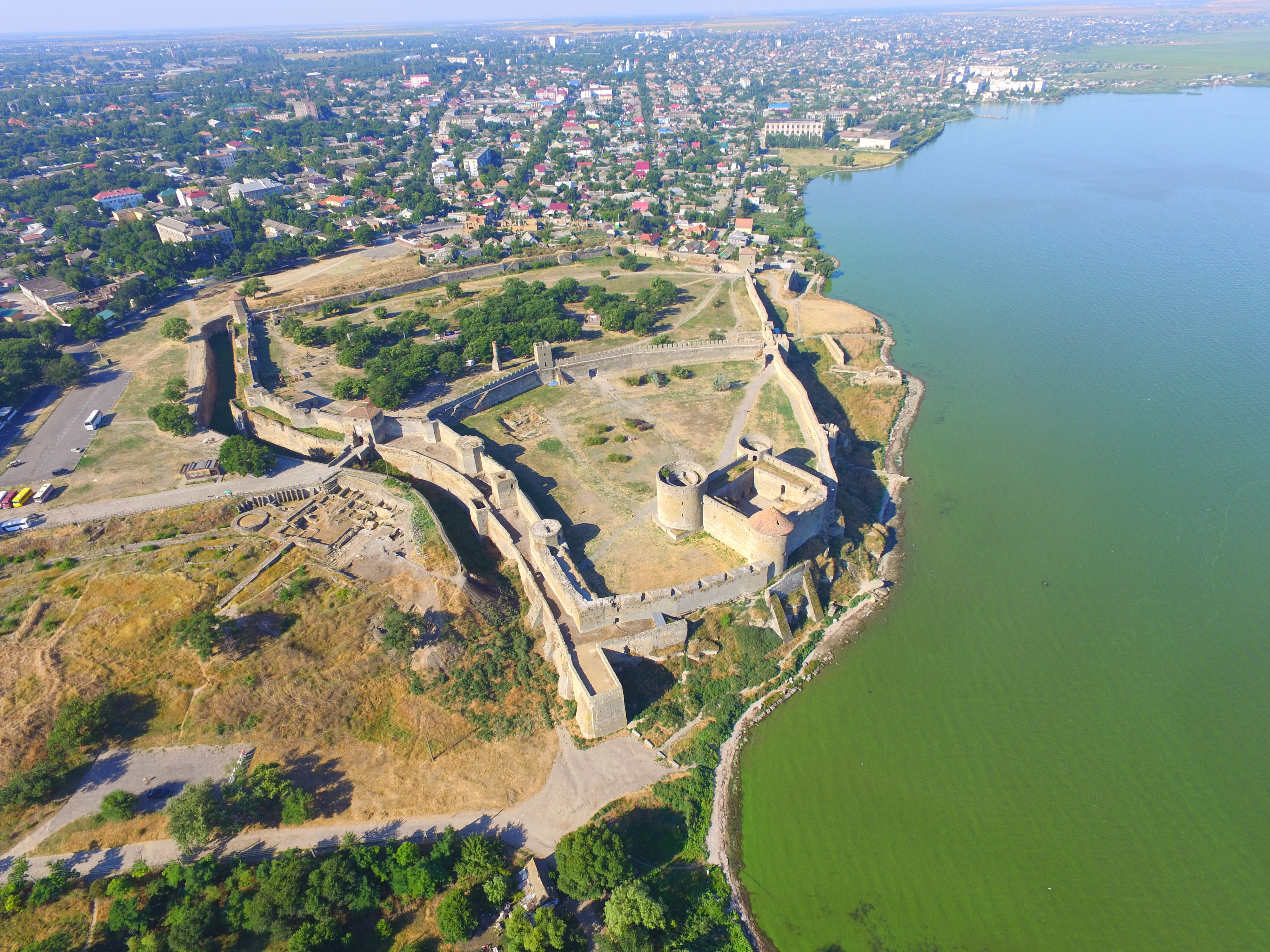 Bilhorod-Dnistrovskyi fortress, aerial view